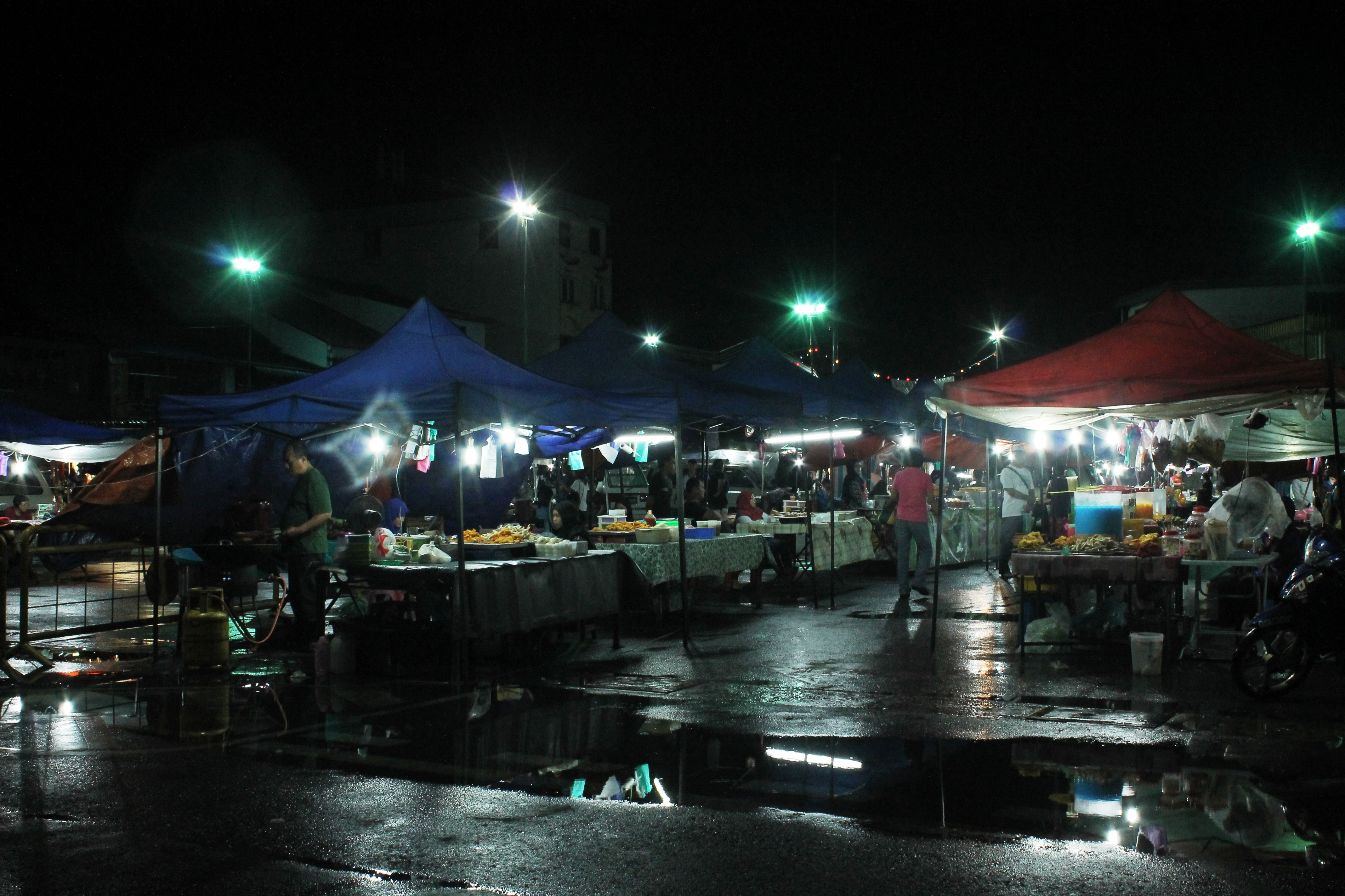 Sibu night market